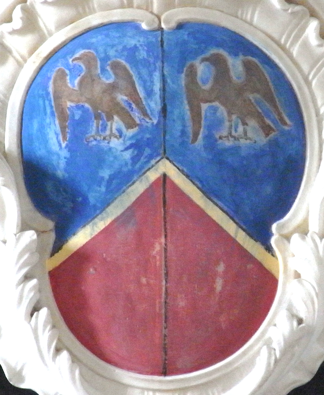 Arms of Stevens family of Winscott, Peters Marland, from 1776 mural monument to Richard Stevens (d.1776) and his wife Elizabeth (d.1760) in St Peter's Church, Peters Marland. The arms shown are: Per chevron azure and gules, in chief two falcons rising belled or. These appear to be a difference of the arms of the senior line of Stevens of Cross, Little Torrington: Per chevron argent and gules, in chief two falcons rising proper belled or, as is visible in Little Torrington Church.